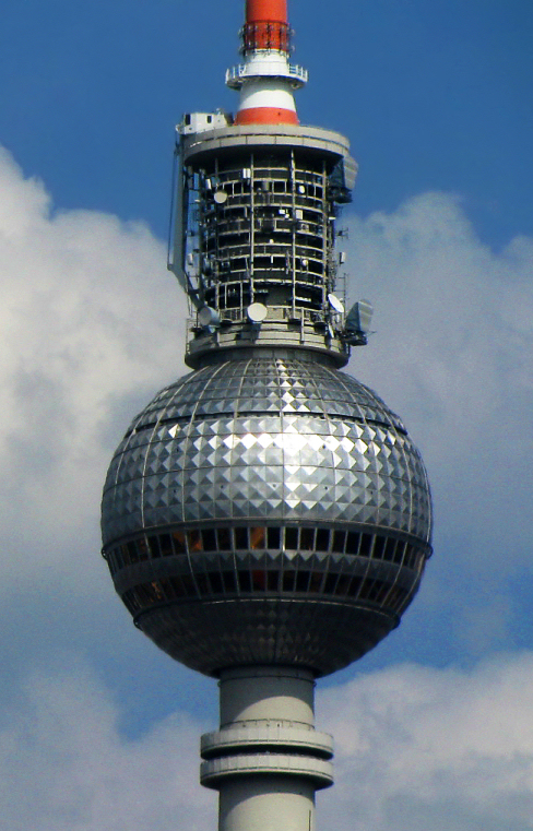 Crosses of Berliner Dom and Berliner Fernsehturm On the spherpe is (The Pope's Revenge)